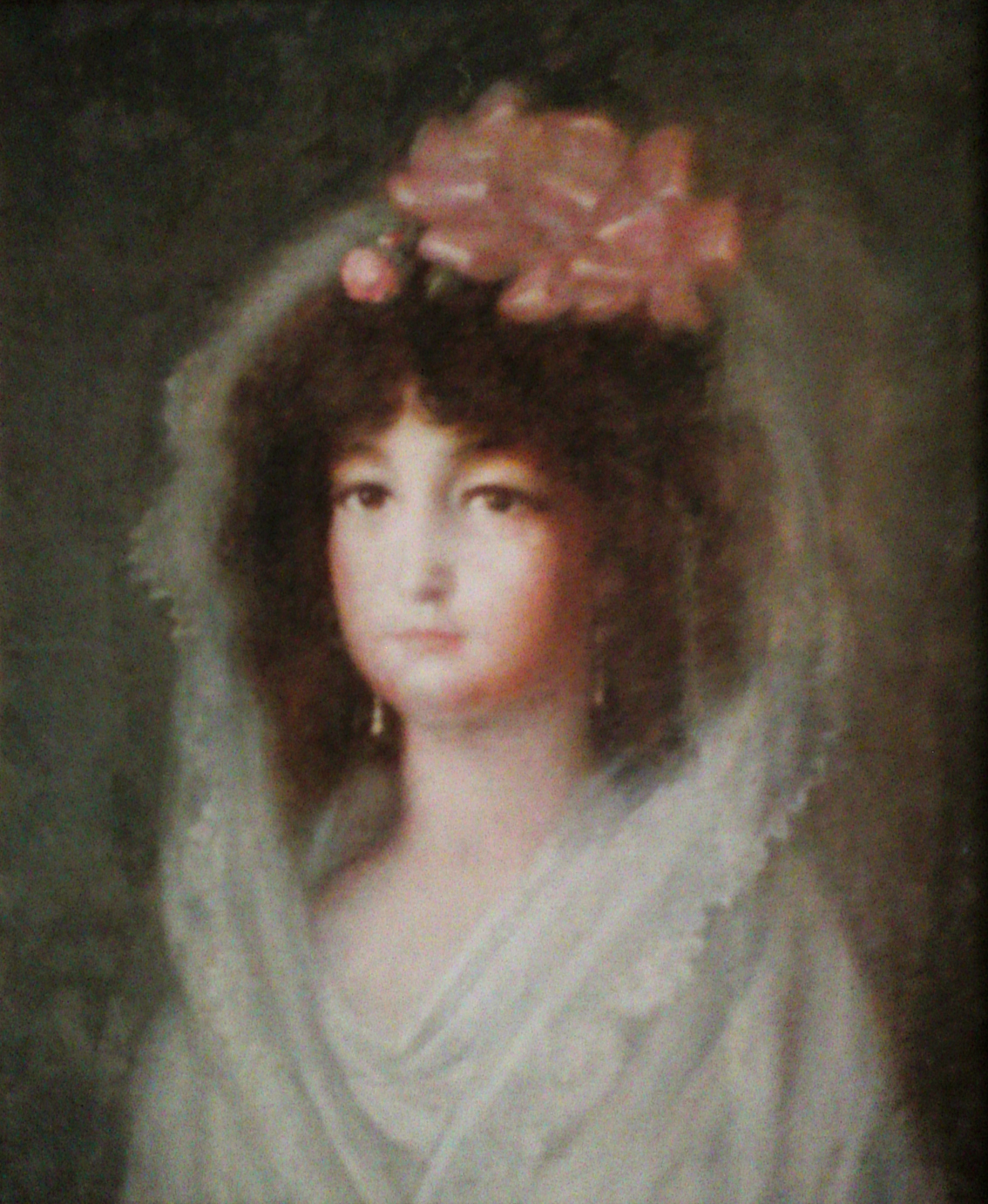 Portrait of La Marquesa de Lazán. Painting is missing (Stolen in 1998).